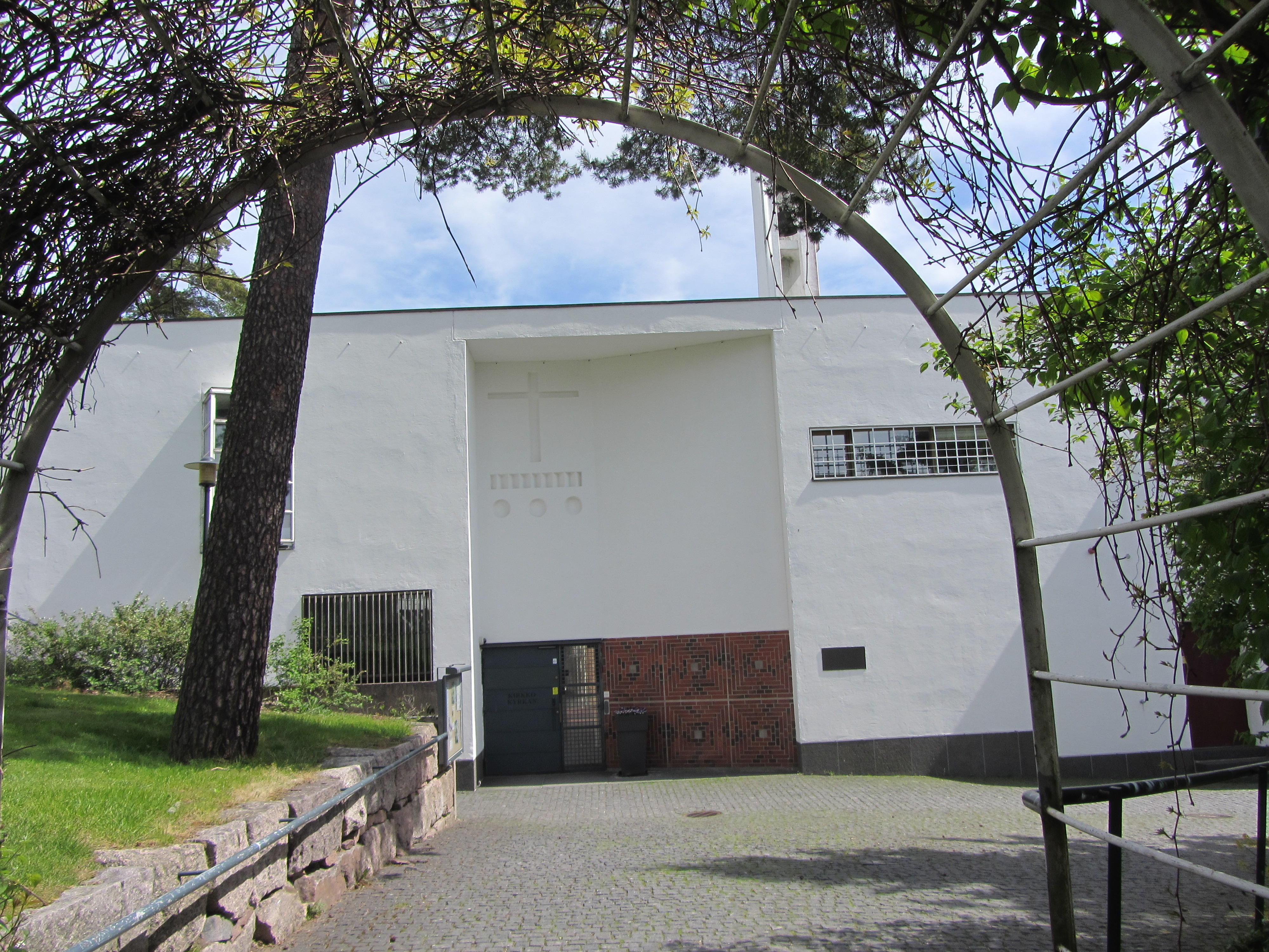 Kauniainen Church